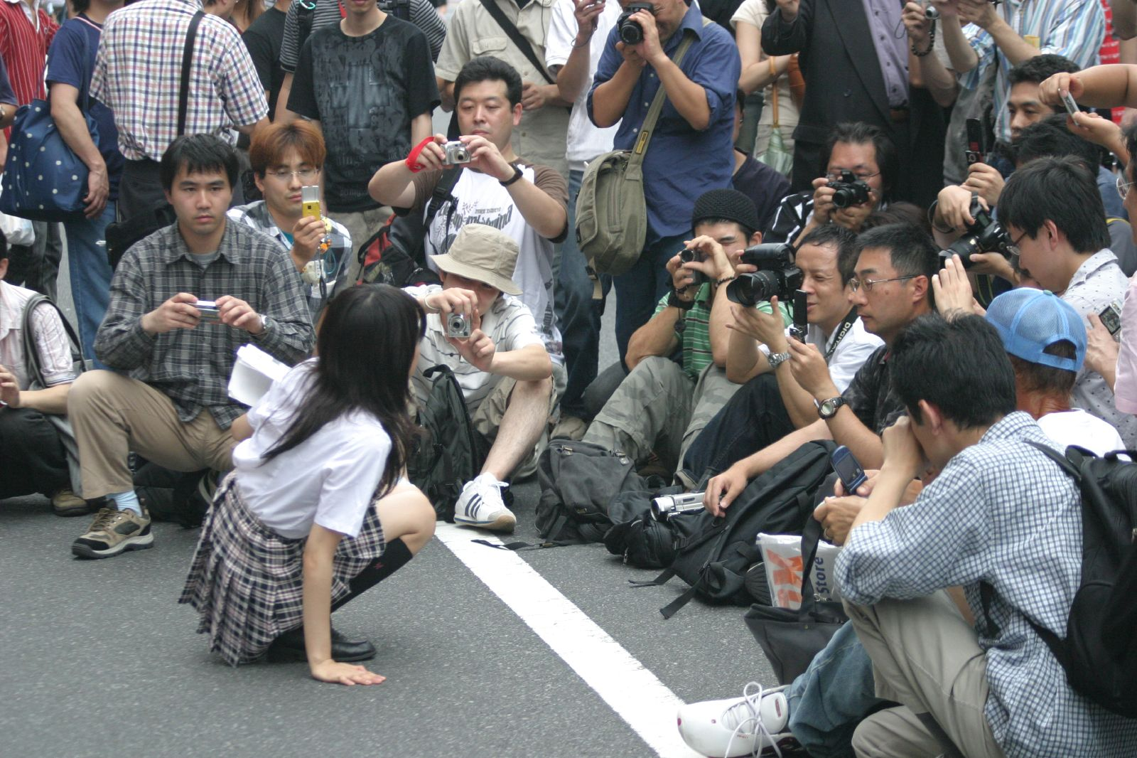 Various photographers swarming a girl, some seemed to be trying to get their cameras as low as possible, and she *almost* seemed to be egging them on... (at the least, there were numerous other girls in Akihabara, none with a large swarm of guys)